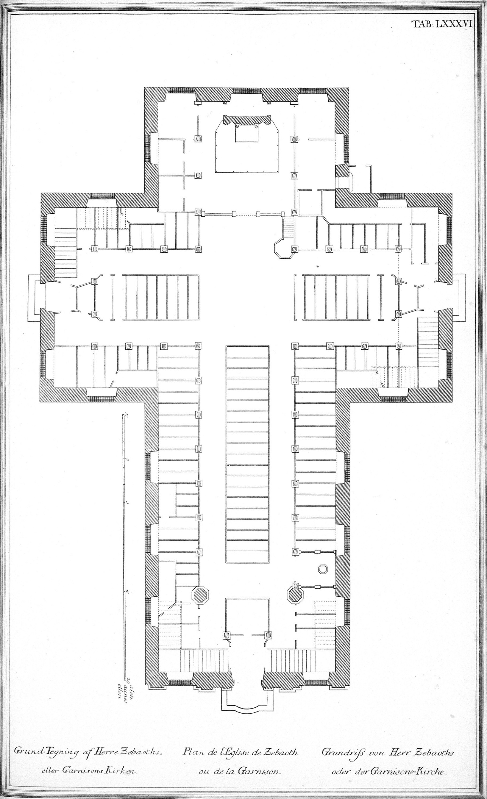 Plan over Garnisonskirken - Plan of the Garrison Church